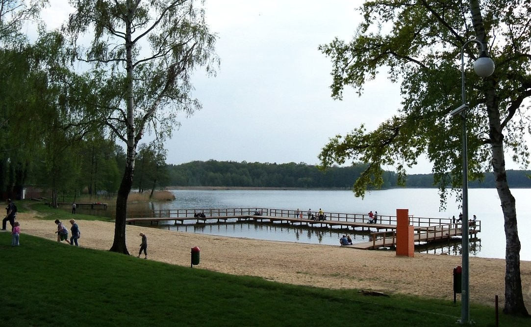 Lgiń - the lake Lgiń Duży (Lgiń the Great)